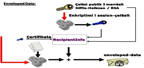 Mbështjellja e të dhënave